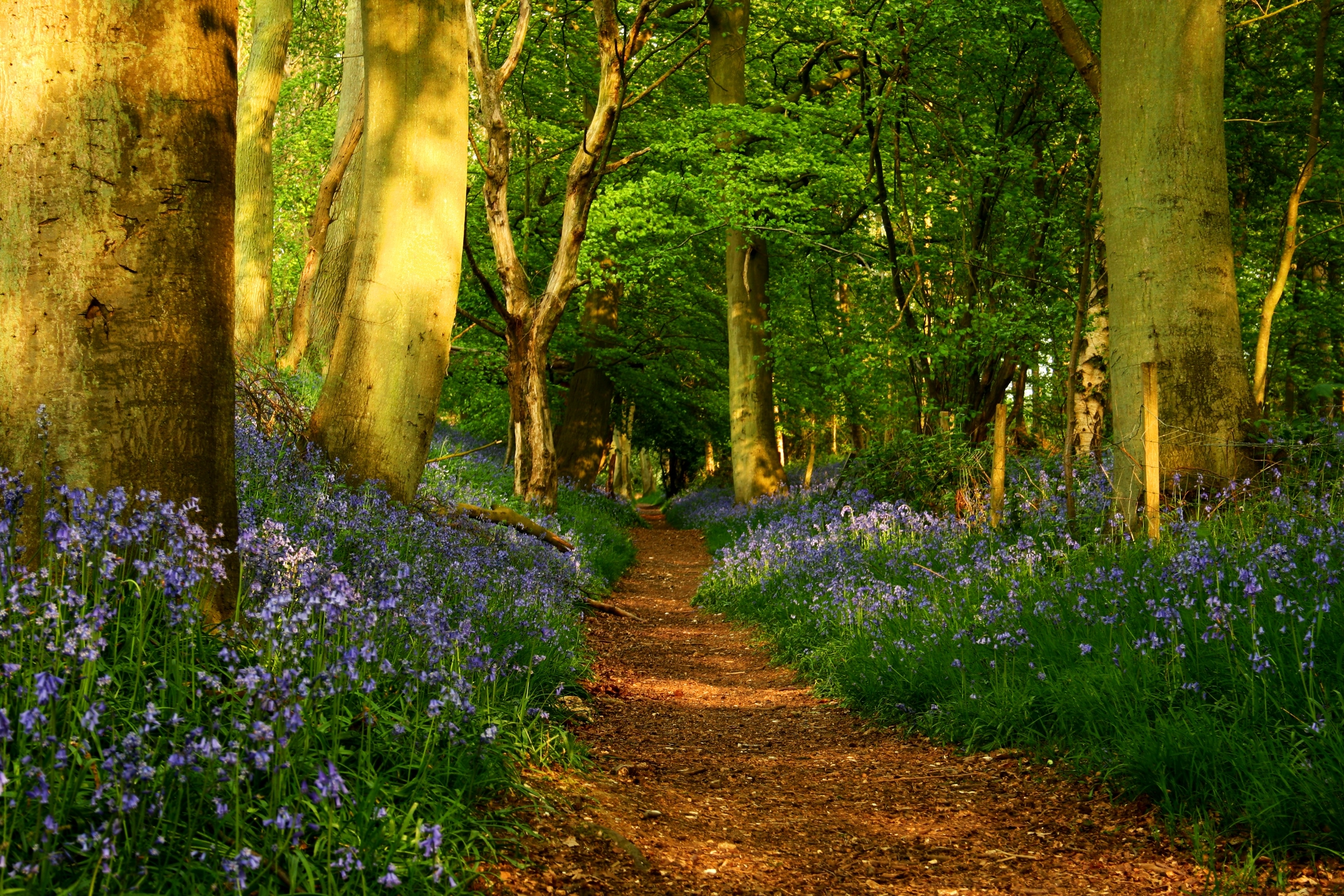 The Ridgeway in Grim's Ditch near Mongewell, with Common Bluebells (Hyacinthoides non-scripta) in flower